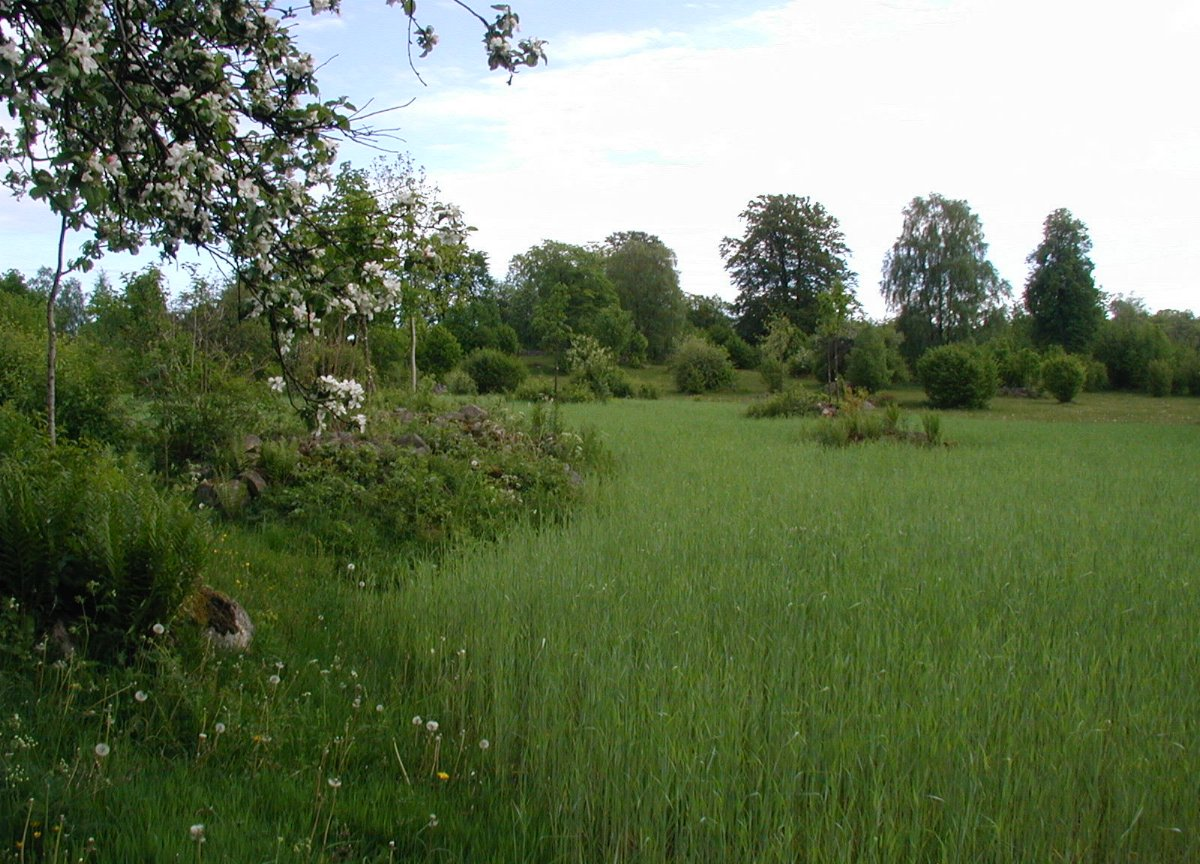 Rye field at Råshult in southern Sweden. The picture is showing agriculture as it was practised by the time of Linneaeus (Linneaeus-museum at Råshult).